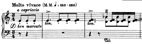 Excerpt from Liszt's Transcendental Etude 2